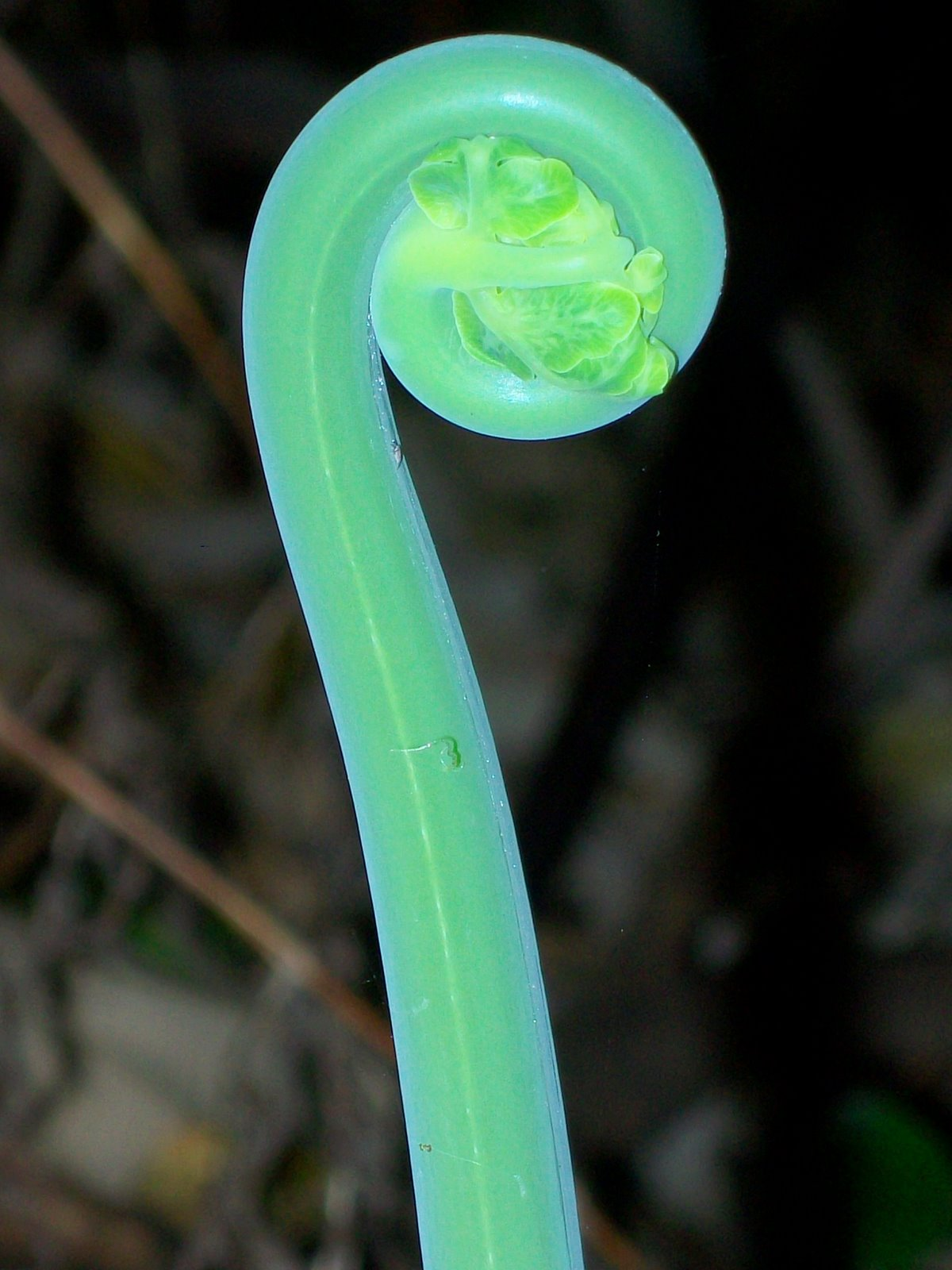 Fern at Dee Why, Australia, Histiopteris incisa Bat's Wing Fern